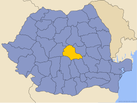 Location of Brașov County in Romania.